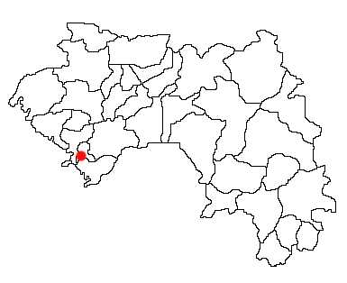 Coyah, Guinea Location Map; created with the GIMP. Made by User:Acntx.